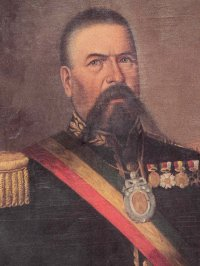 This image was made over 100 years ago and is found at the Bolvian Government?s website at